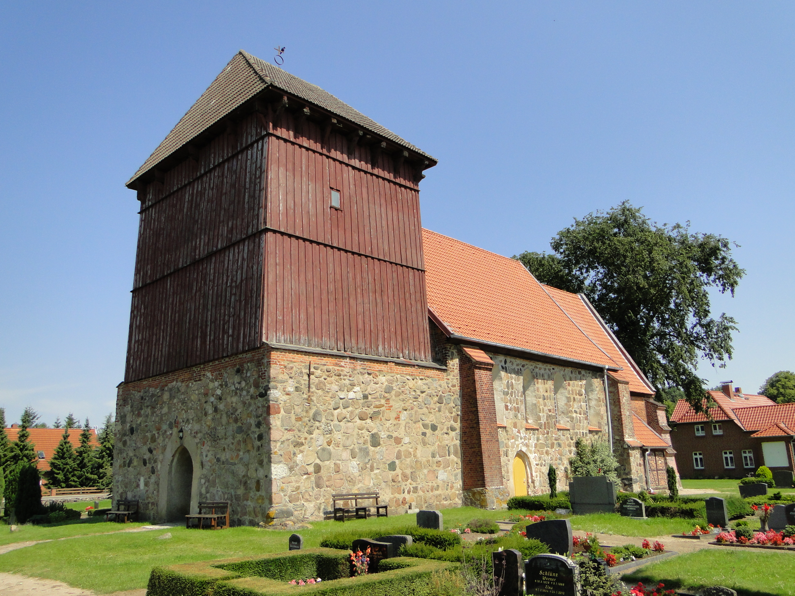 Church in Zahrensdorf, district Ludwigslust-Parchim, Mecklenburg-Vorpommern, Germany